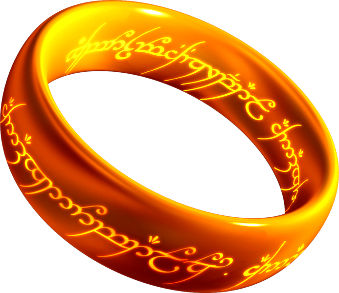 The One Ring, red colored